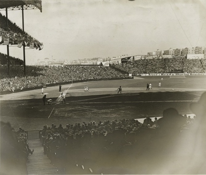 Yankee Stadium in 1927, unknown date. Original image caption: "Yankees make it three straight by taking first game in New York: score 8 to 1. General view of game looking towards the diamond from the grandstand."